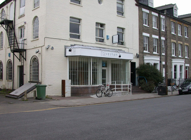 Former Evesham Technology Showroom, Glisson Road Evesham Technology, formerly Evesham Micros, have had a showroom here for many years. In 2007 the company went into administration, and although it is still trading its showrooms have closed.